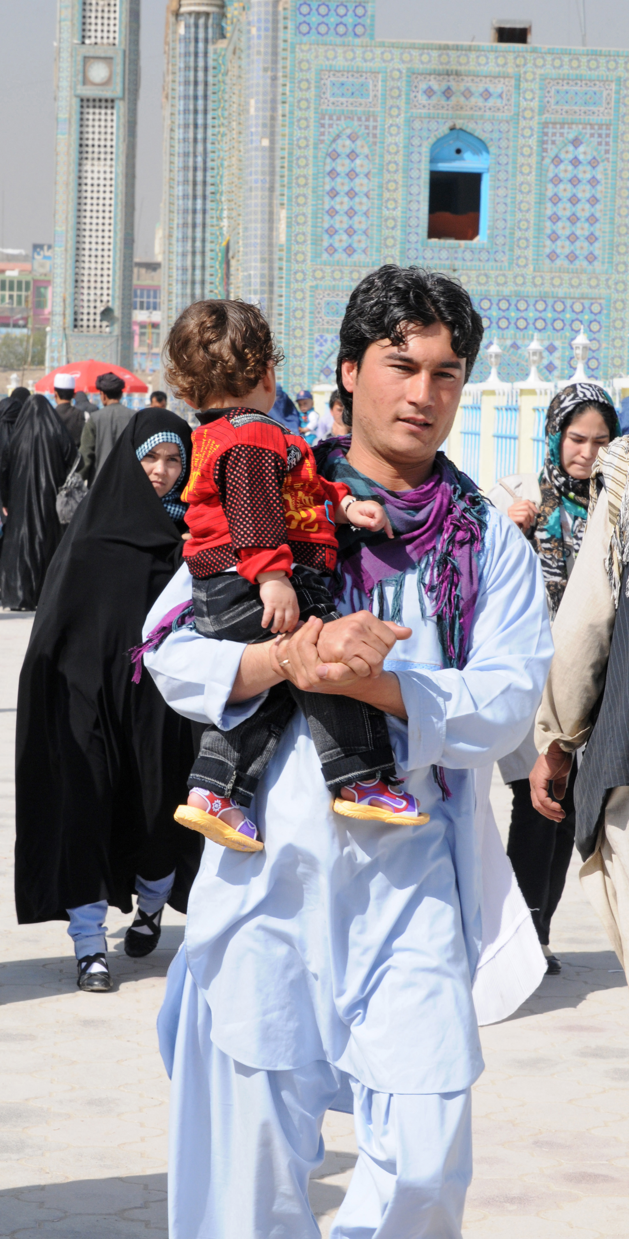 An Afghan father carries his child at the Blue Mosque in Mazar-e-Sharif, Bahlk Province, Afghanistan, April 3, 2012. (37th IBCT photo by Sgt. Kimberly Lamb) (Released)